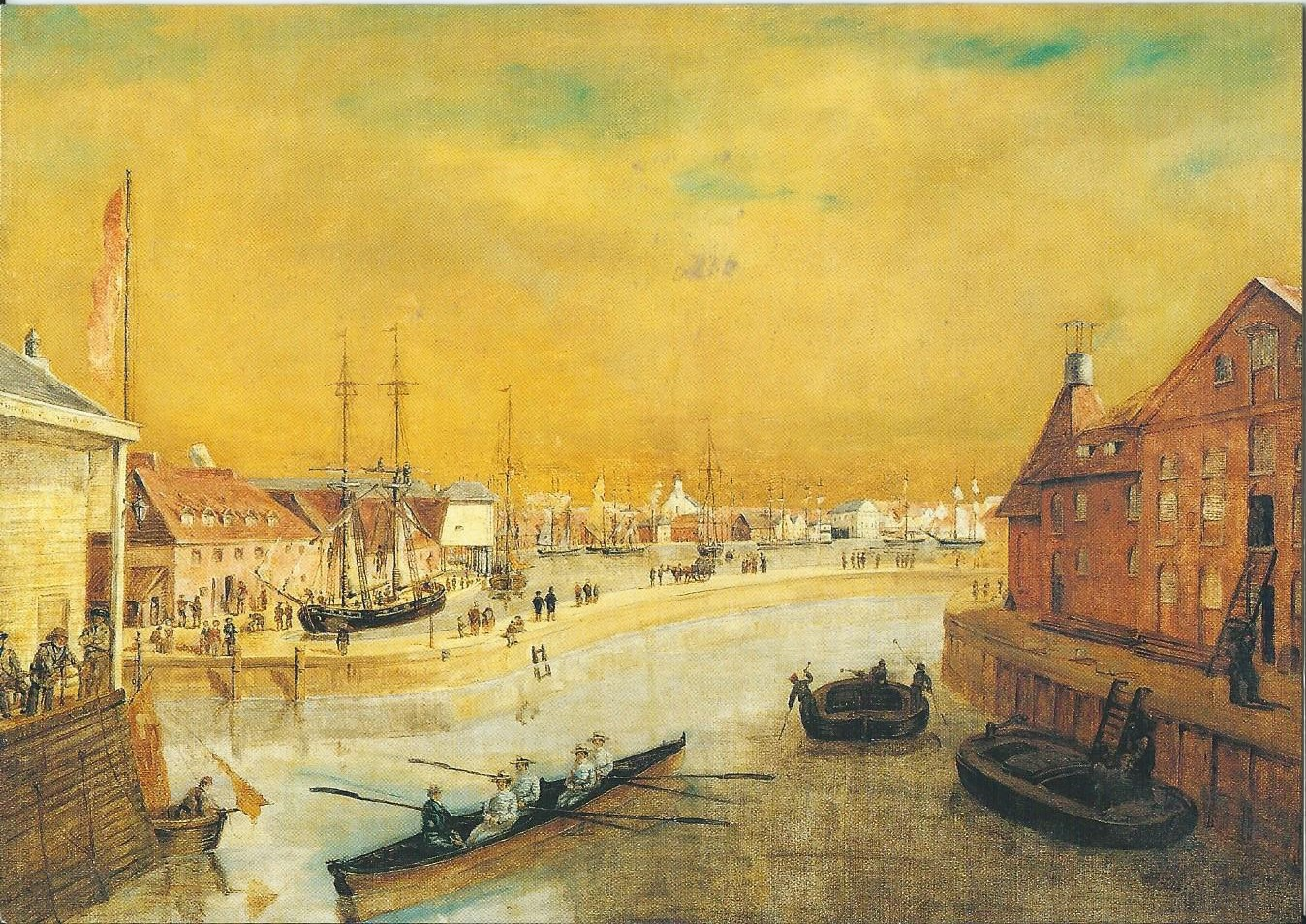 A very early image, possibly the earliest example of a women’s crew, dressed identically for racing. The wet dock in the background was opened in 1842 with great pomp and ceremony, as the largest wet dock in the country at that time. A visiting crew of women from the south coast travelled to ‘take on allcomers’. This is likely to be them, captured in the oil painting.